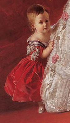 Portrait of Infanta Isabella, of Spain (1851–1931)